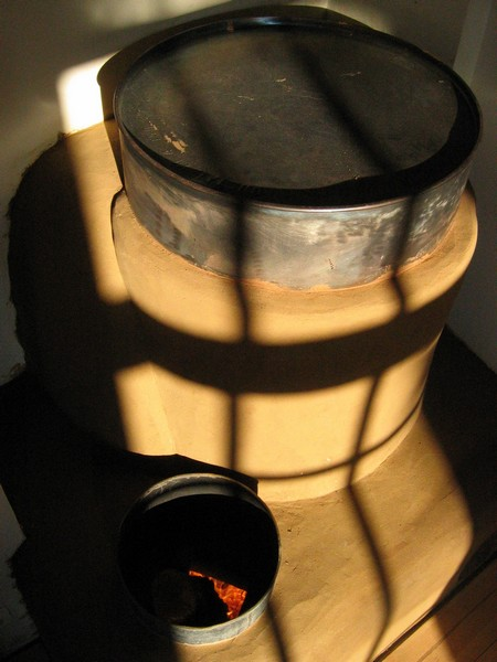 Rocket stove mass heater